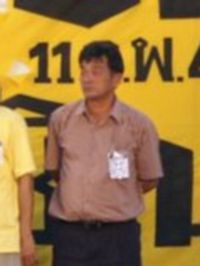 Suwit Watnoo, during the announcement of People's Alliance of Democracy on February 11, 2006.